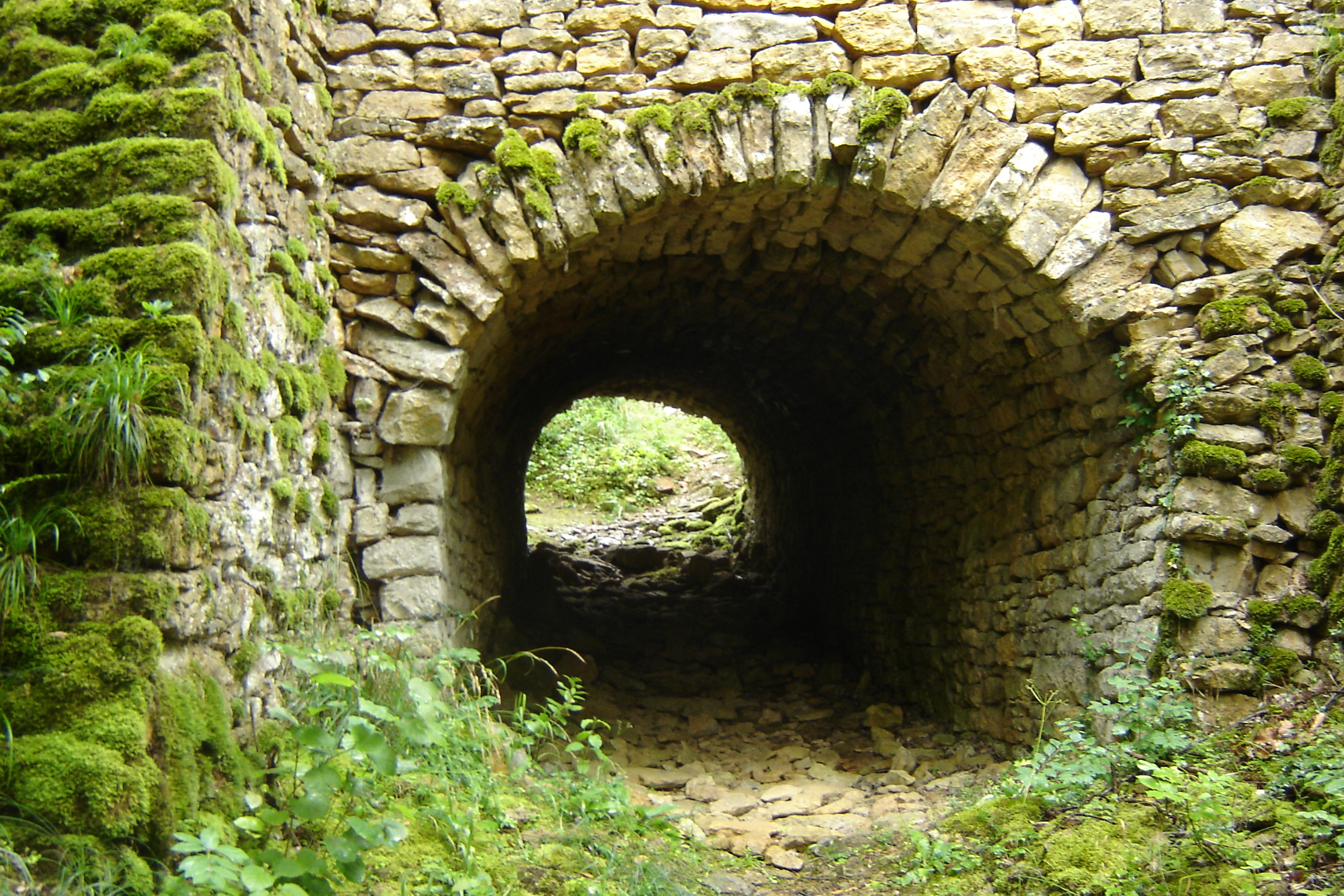 A tunnel (dry set masonry) in Couzon-au-Mont-d'Or, Rhône, France (XIXe century)